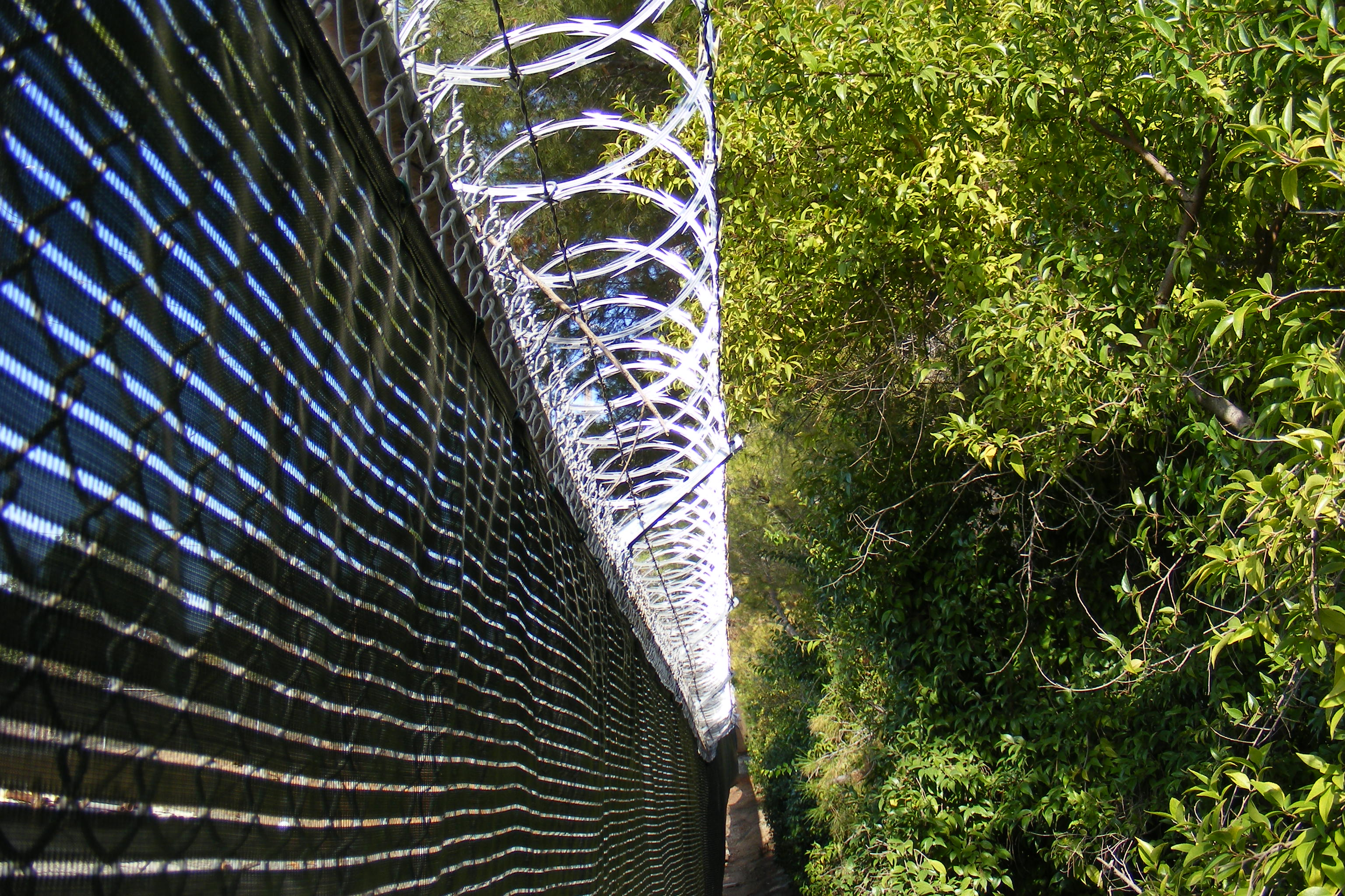 A chain link privacy-fence topped with razor wire protecting a utility power sub-station. Photo taken November 7, 2007. Notes If you are a publisher and would like to use these images under a different license please contact me and we can negotiate different terms. You can find my entire image collection here: User:J.smith/gallery